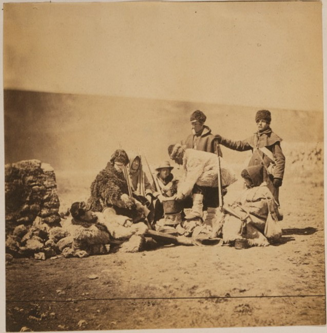 Soldiers of the 47th Regiment in winter clothing around a fire in the Crimea.